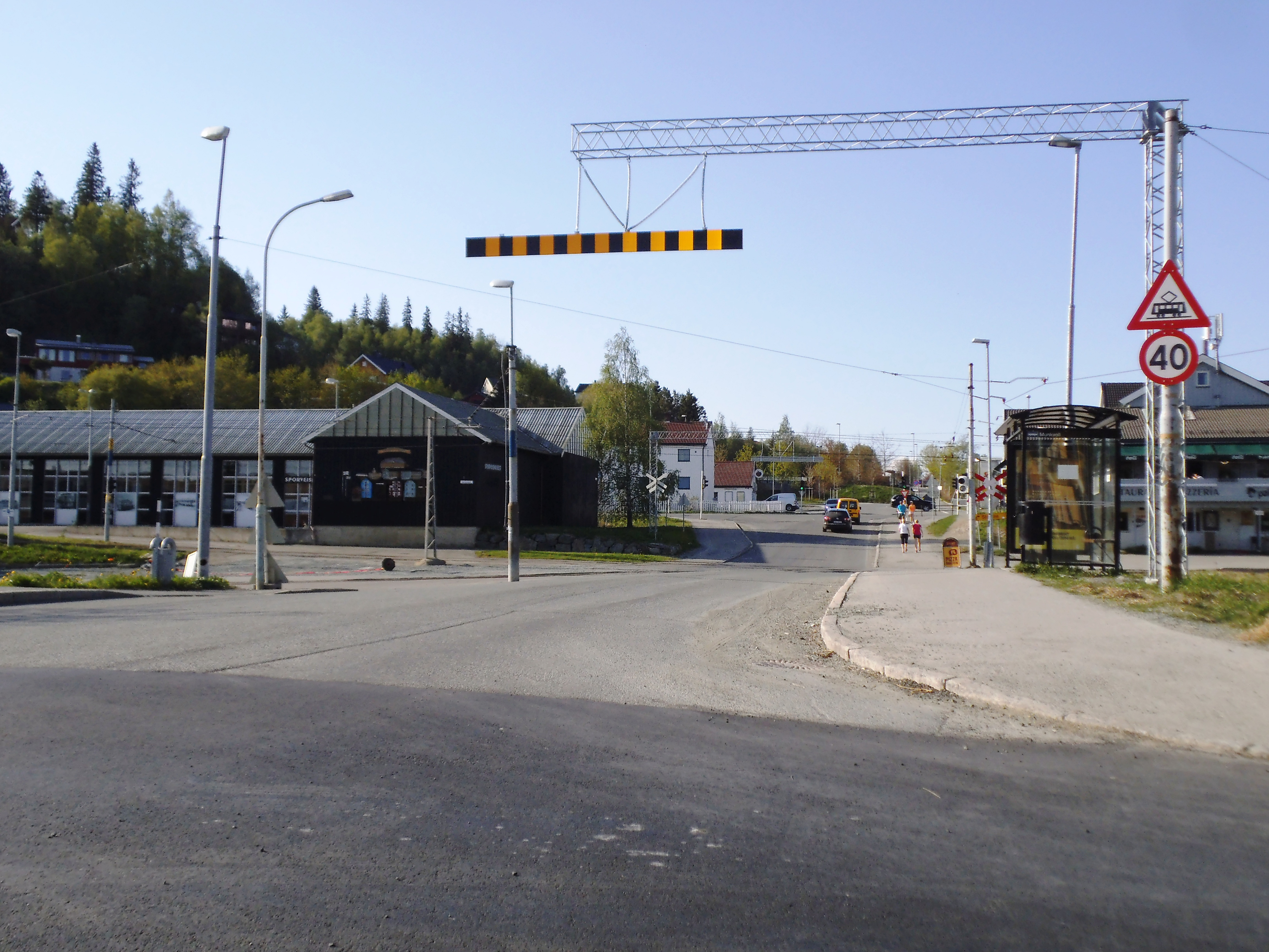 Munkvoll, near the railway station in Byåsen, Trondheim.